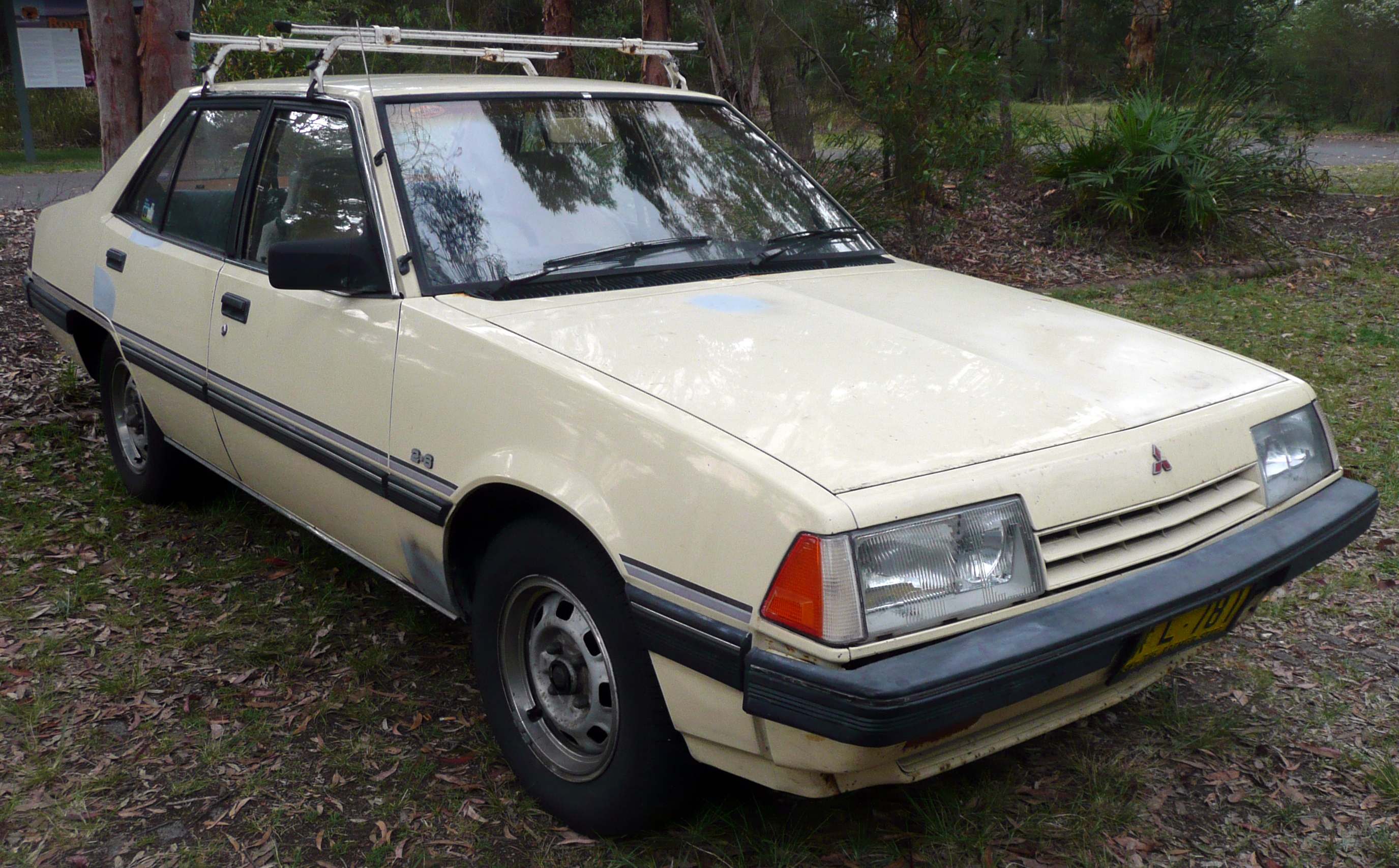 1984 Mitsubishi Sigma (GK) Satellite sedan. Photographed in Audley, New South Wales, Australia.